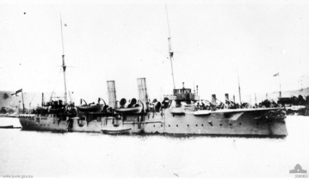 AWM caption : "HOBART, TAS. 1903. STARBOARD SIDE VIEW OF THE THIRD CLASS PROTECTED CRUISER HMS KATOOMBA OF THE AUSTRALIAN AUXILIARY SQUADRON OF THE ROYAL NAVY AT ANCHOR. THE SHIP HAS BEEN REPAINTED FROM THE LATE NINETEENTH CENTURY COLOUR SCHEME OF BLACK, WHITE AND BUFF INTO THE NEW SCHEME OF ALL-OVER GREY."